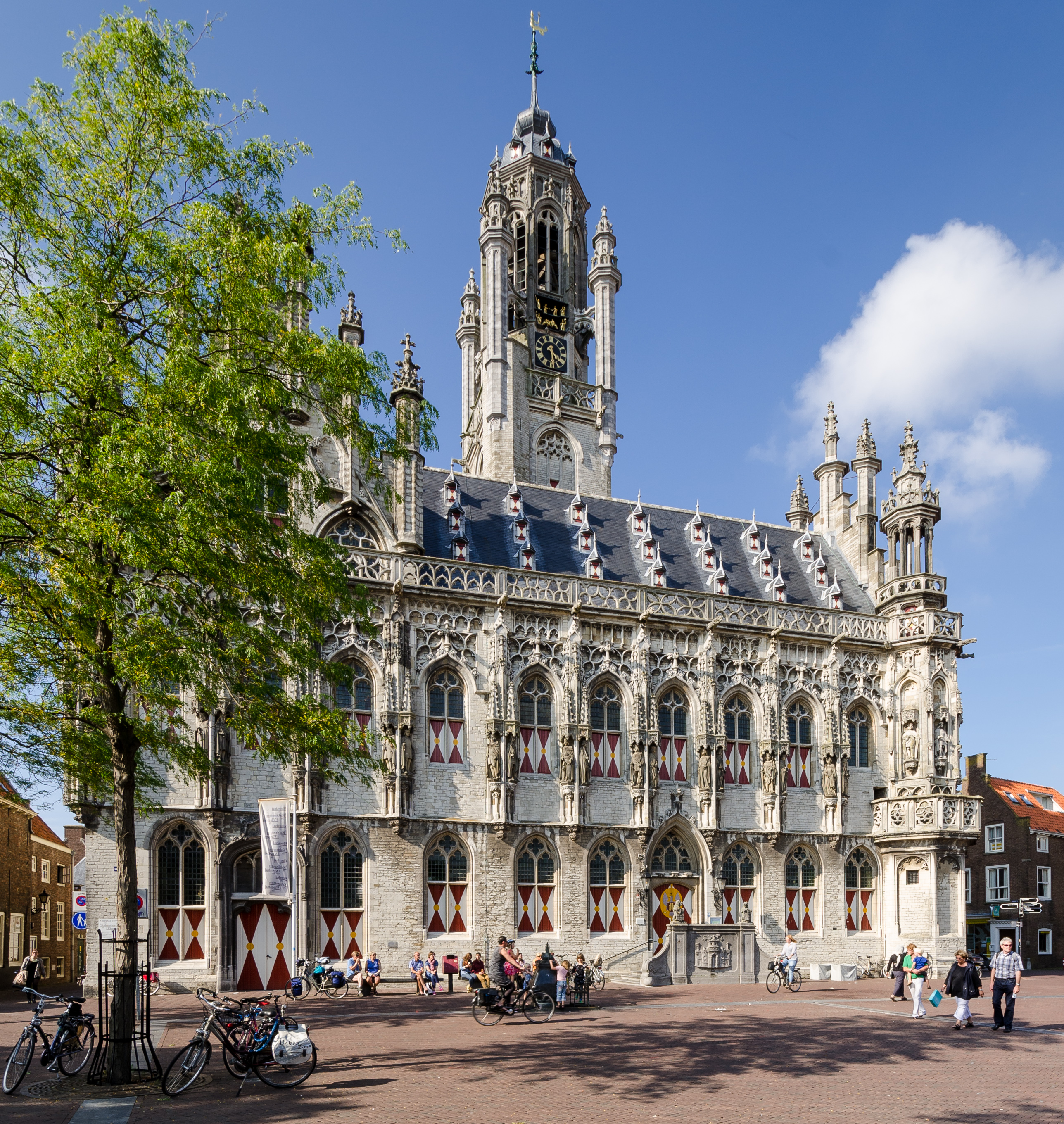 Town hall of Middelburg